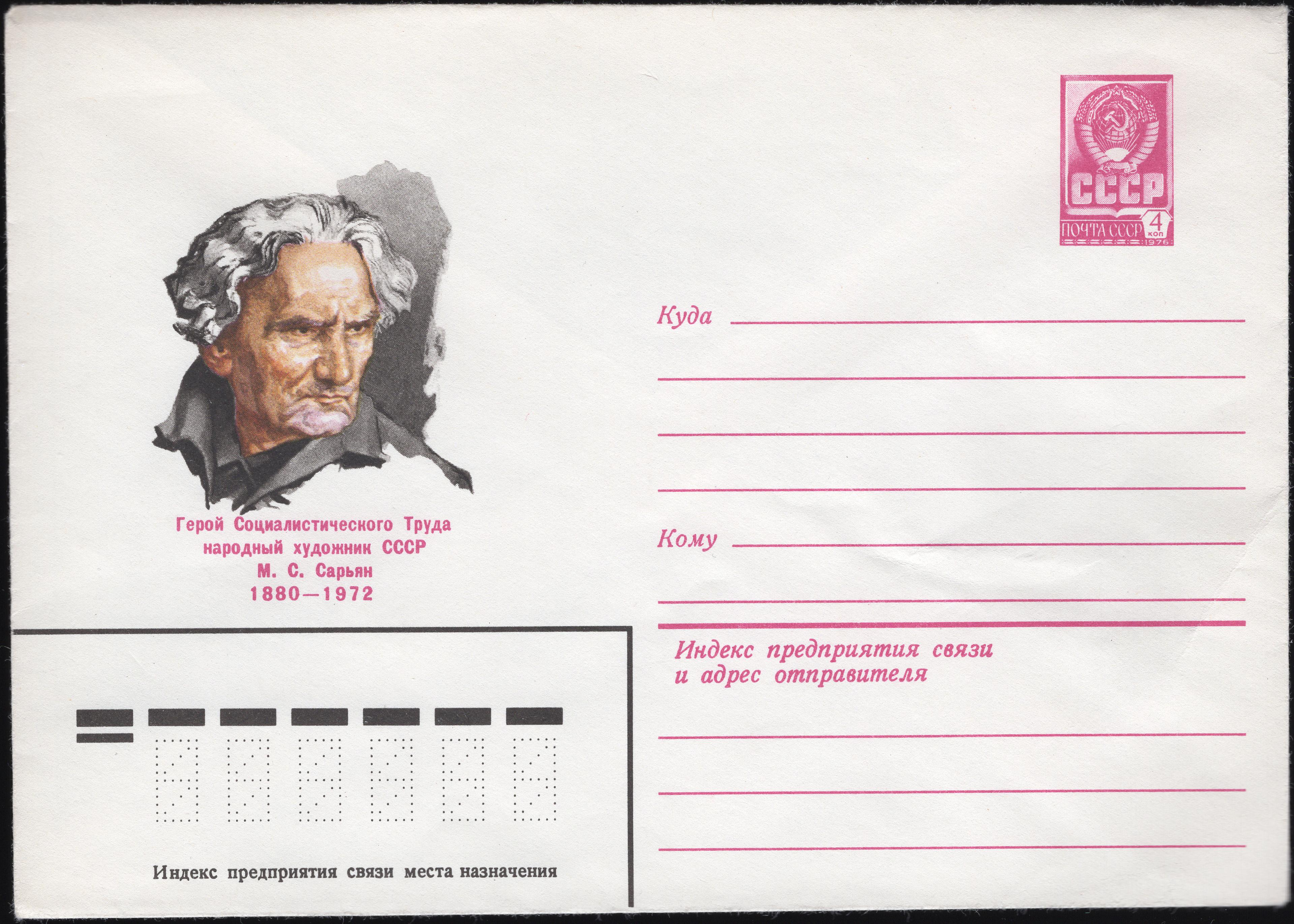 Hero of Socialist Labour People's Artist of the USSR Martiros Saryan. 1880-1972. Series: Hero of Socialist Labour. Artist Peter Bendel.